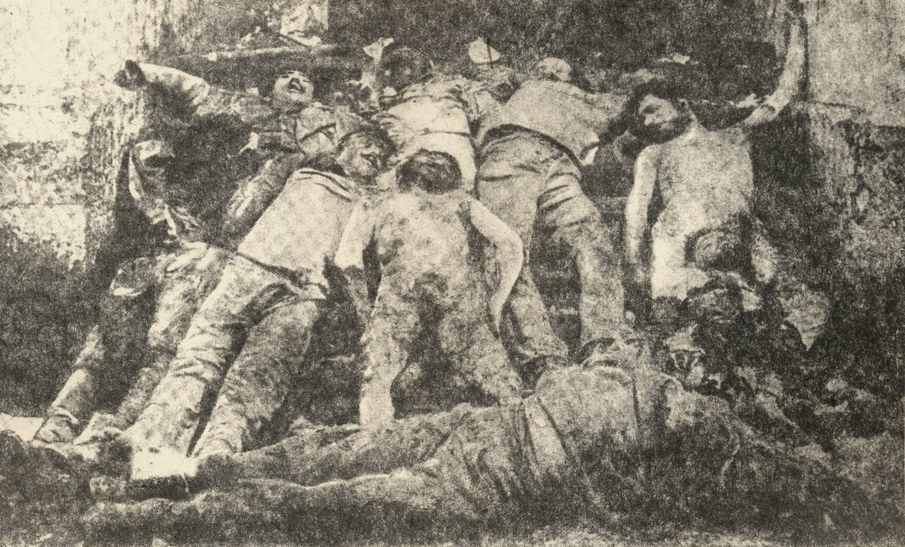 Yerevan prison. Prisoners, mostly former officials of Republic of Armenia axed to death by Bolsheviks during February revolt, 1921